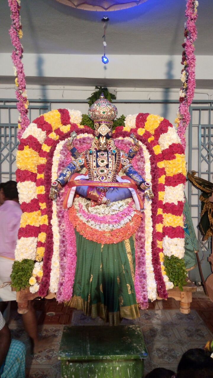 panduranga swamy thaalaatu1